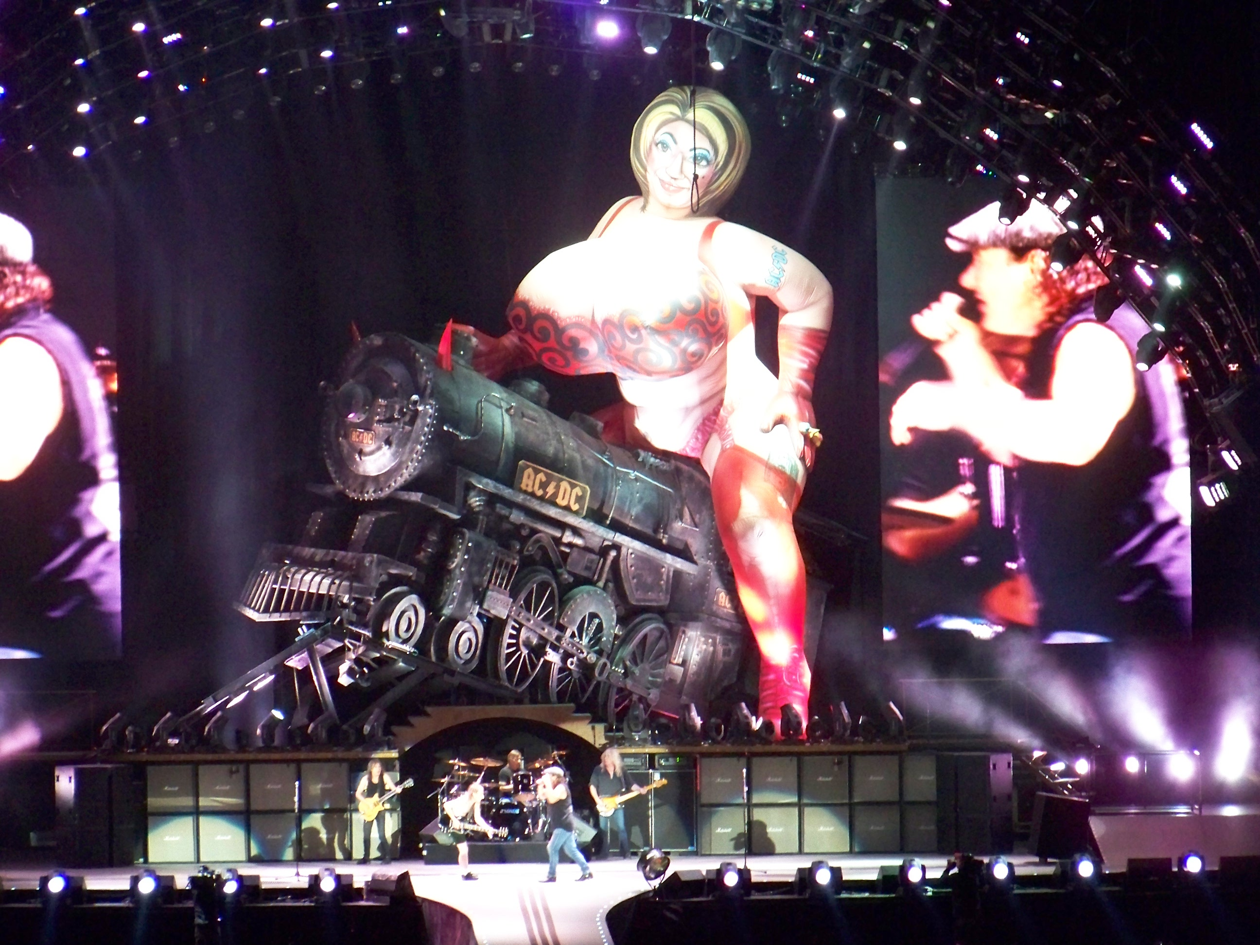 AC/DC Madrid